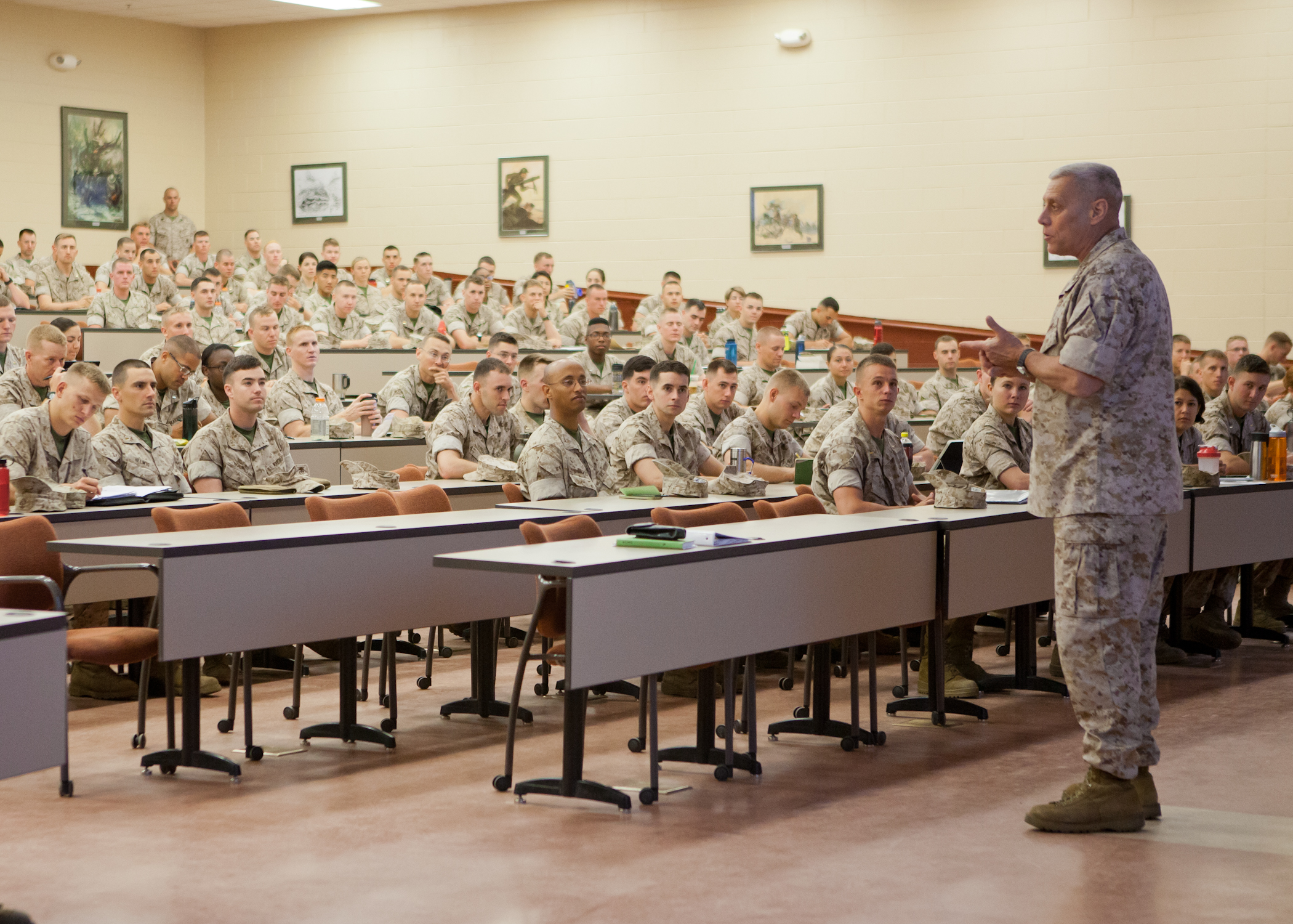 Marine Corps Base Quantico, VA - The Assistant Commandant of the Marine Corps, Gen. John M. Paxton, Jr., speaks to students of Bravo Company at The Basic School, Marine Corps Base Quantico, Va., June 11, 2014.